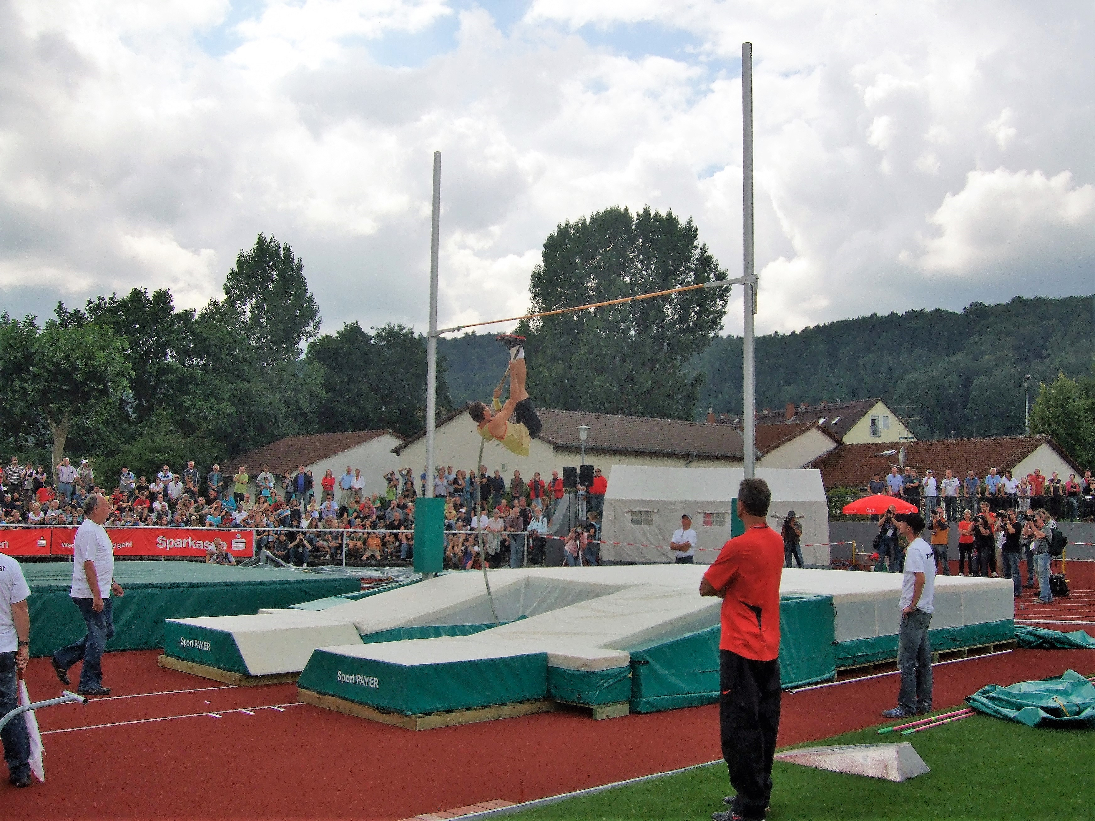 Pole vault at the 2010 Thorpe Cup